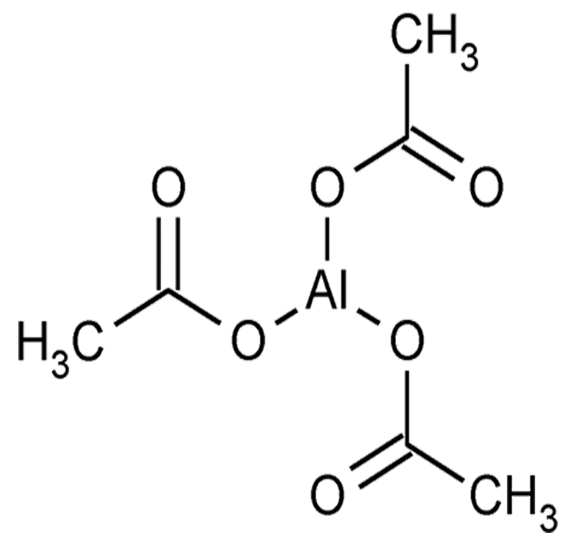 This is the molecular formula for aluminum acetate.